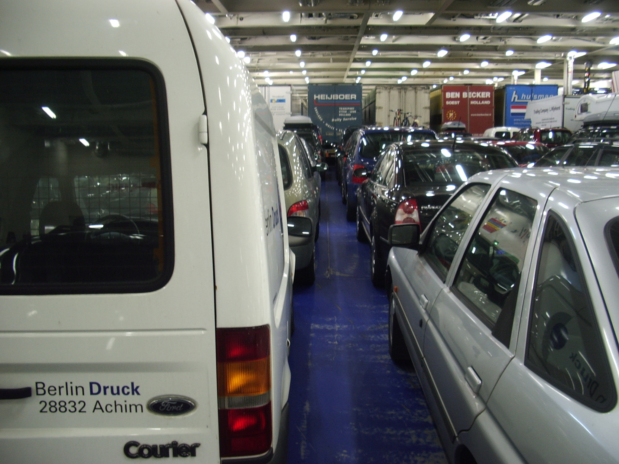 On a car ferry to England